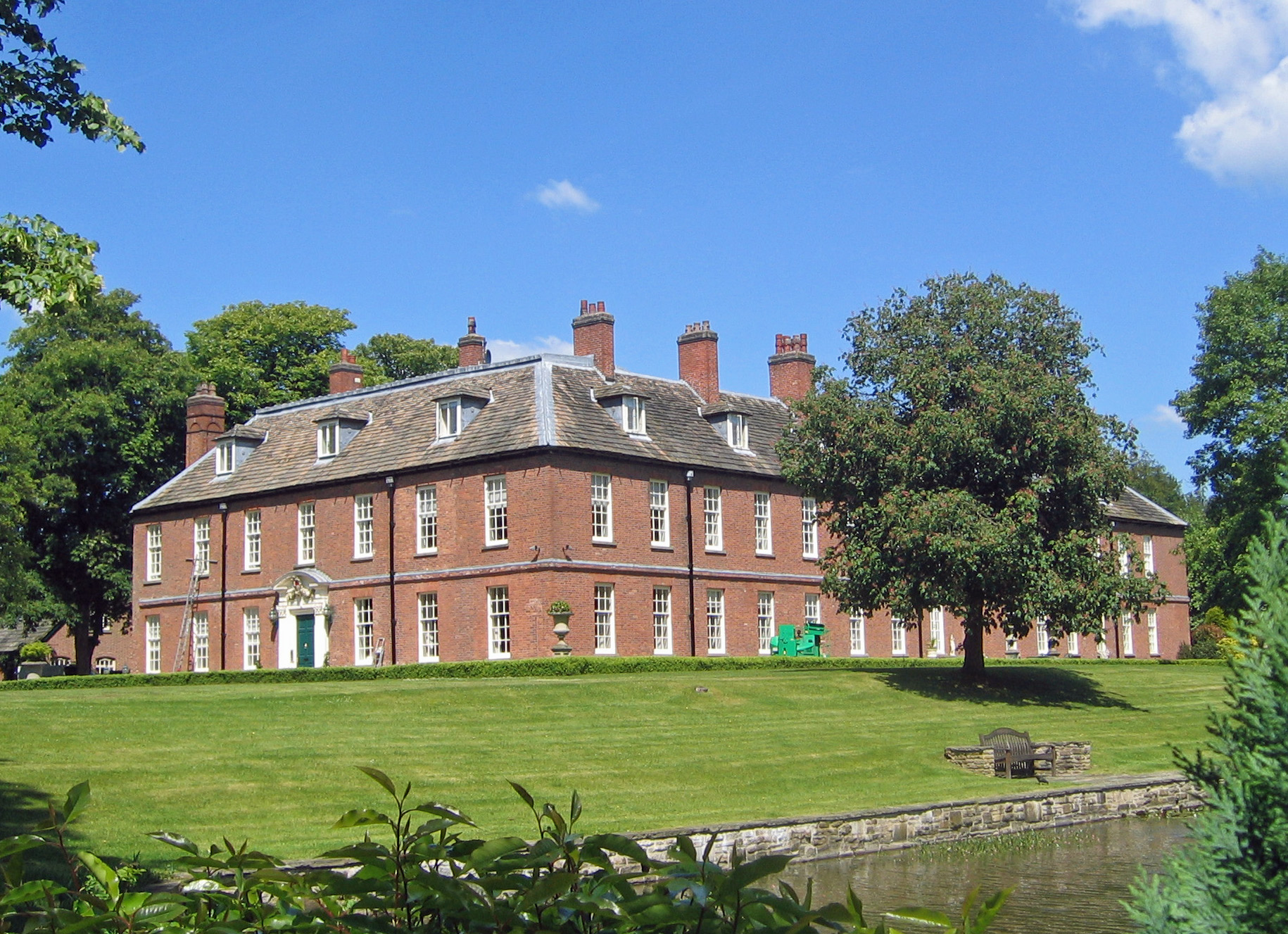 Gawsworth New Hall from the southwest